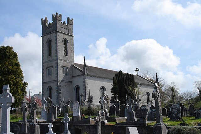 Church and graveyard Durrow Catholic church and graveyard on the N52, north of Tullamore.